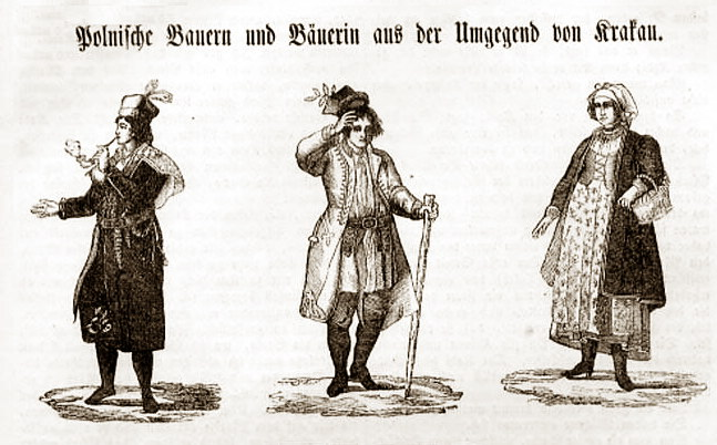 Folk costumes of West Galicia (Central Europe), Kraków 1852